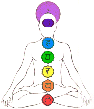 own work using corel draw